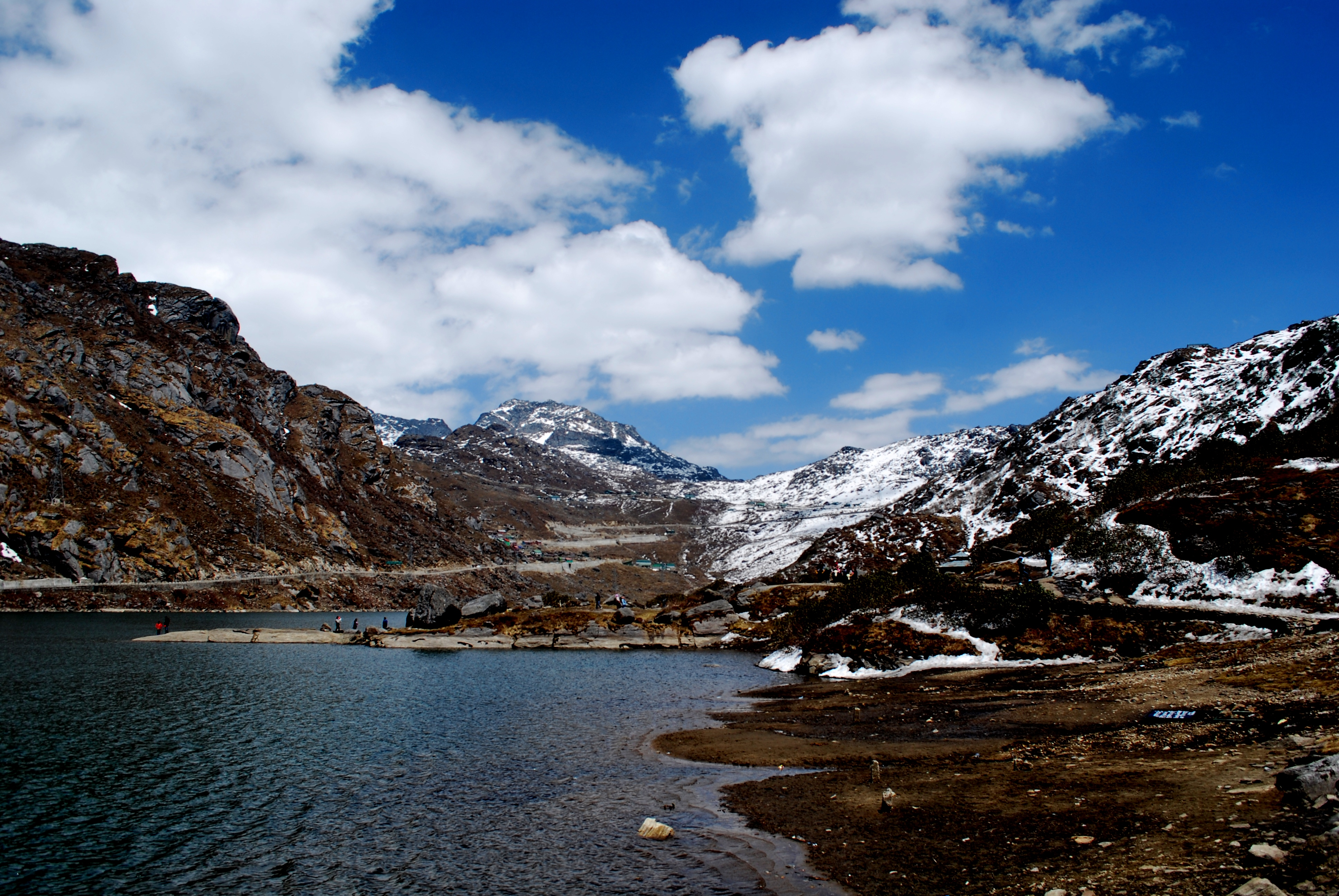 Holly Lake Located at an altitude of 12,00ft, this ethereal lake is one of the Sikkimese offerings that you cannot miss out at any cost! Locally called the ‘Changu Lake’, it is nestled amidst lofty peaks and enchanting glaciers. Translated into the local Bhutia language, it means the ‘source of the lakes’. Around 40km from the capital city of Sikkim, this oval shaped lake spreads around 1km and is 15m deep. While the winters freezes down this water reservoir, the spring makes it a colourful affair with many varieties of flowers. Also, a paradise for the bird-watchers, this Sikkim lake attracts a diverse range of migratory birds; the Brahmini Duck is one of the native species.